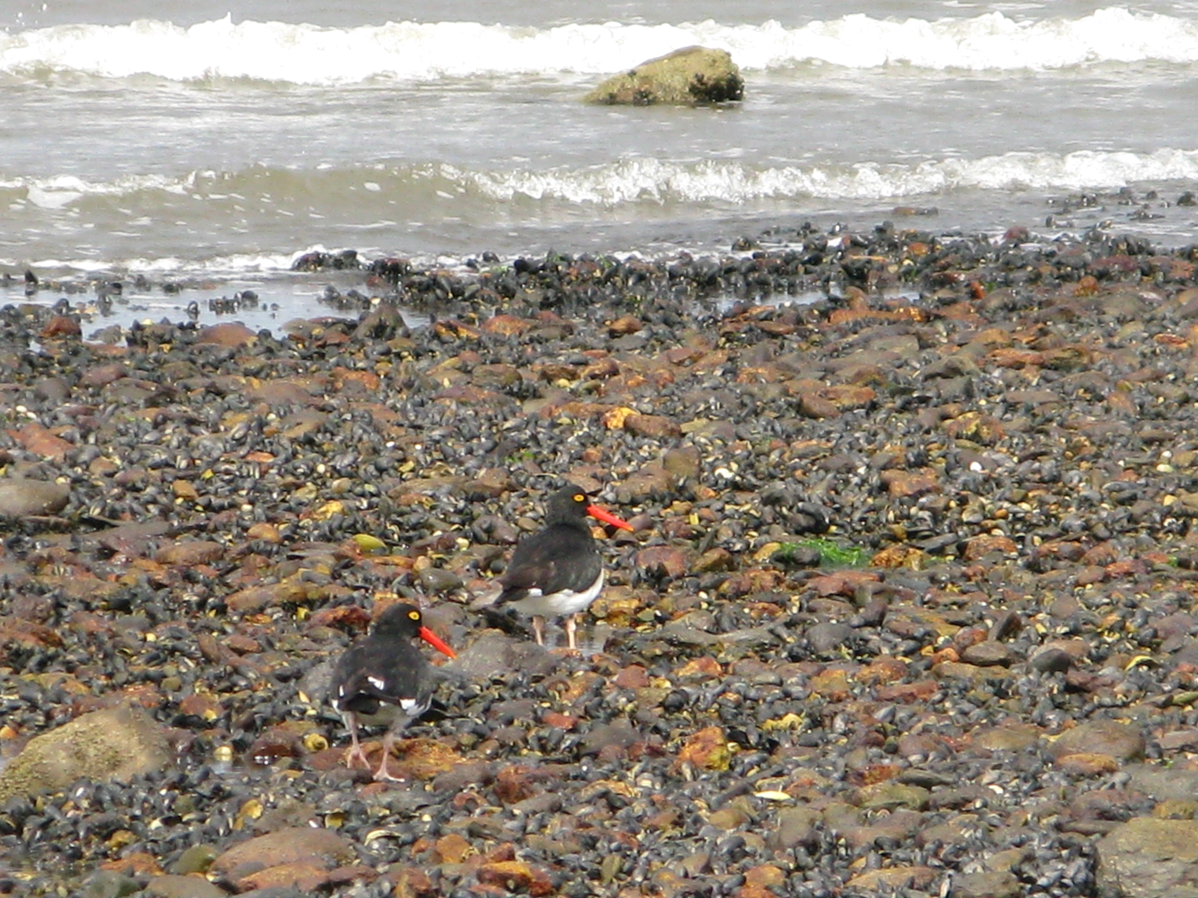 Magellanic oystercatcher (Haematopus leucopodus) - Ushuaia - Patagonia